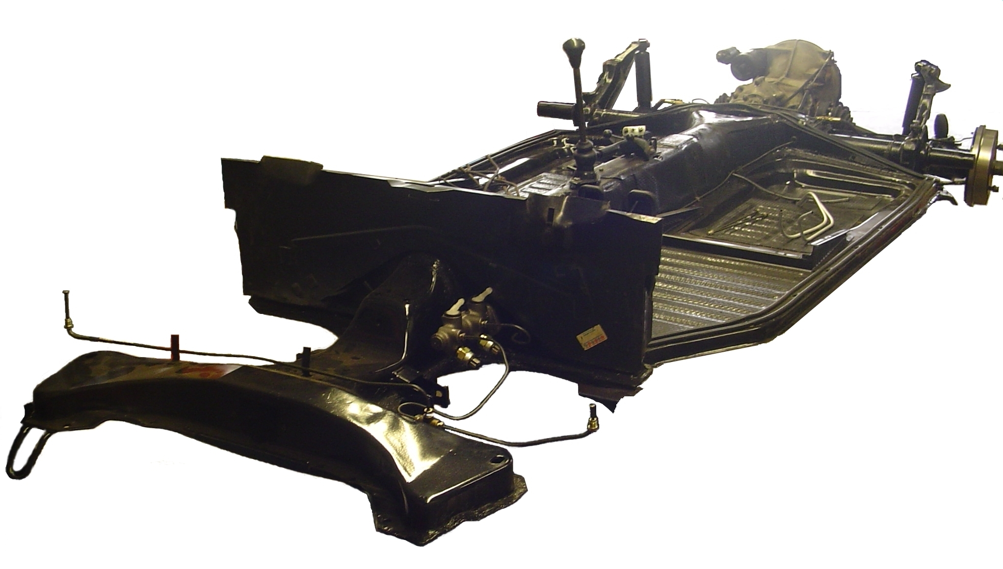 super beetle pan, shot taken with permission of owners in Volkswerkstatt, Berlin, Germany. Note: a body repair tin has been set on to the "Napoleon's hat" in the foreground.